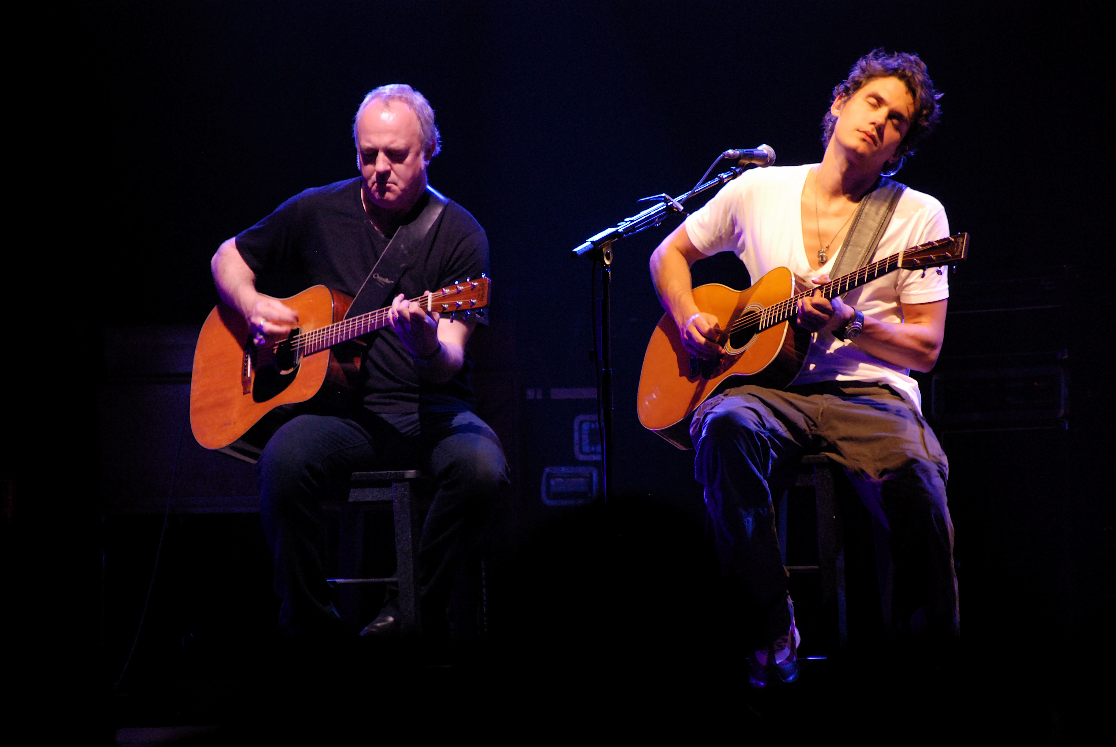 Robbie McIntosh and John Mayer perform at HP Pavillon 06/05/2007